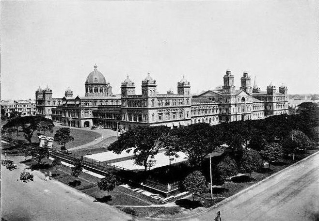 View of the Secretariat Building, 1900s